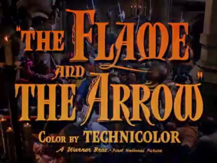 The Flame and the Arrow (1950) directed by Jacques Tourneur.